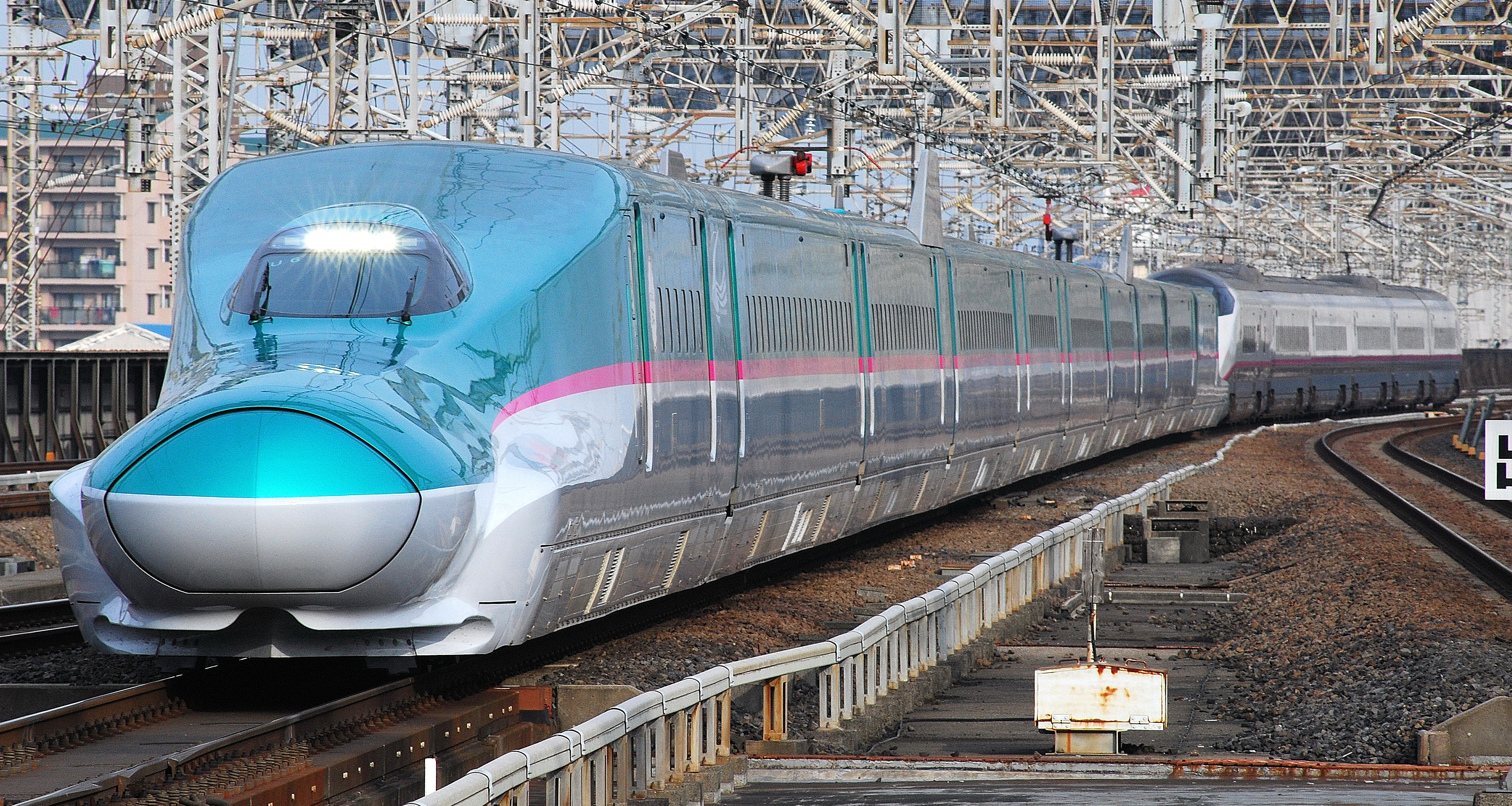 JR East E5 series shinkansen set U6 approaching Omiya Station on the up Hayate 102 service coupled to an E3 series set